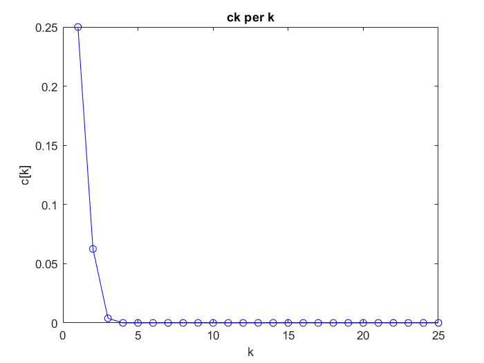 Ck_converganceRate